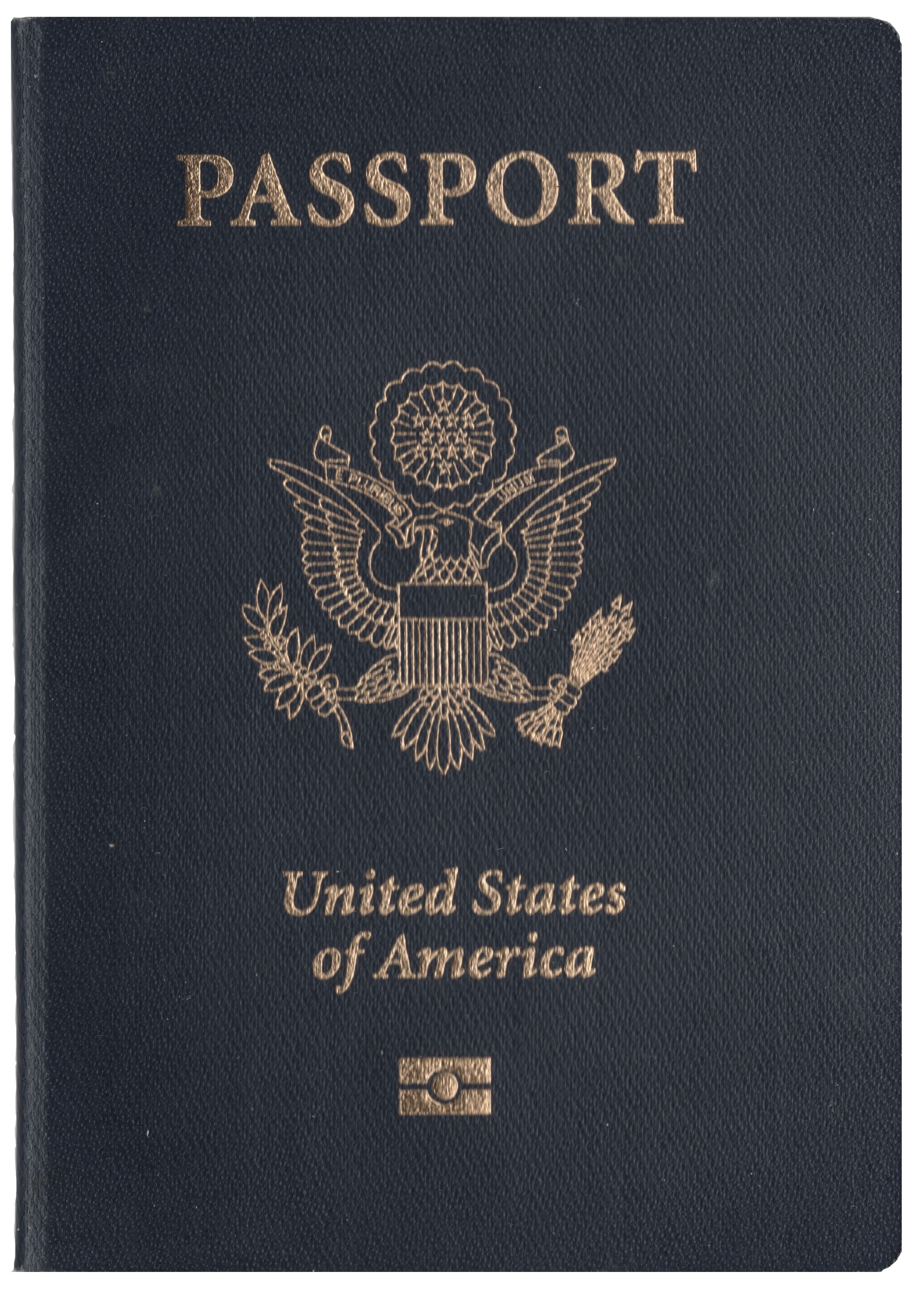 Obverse cover of US biometric passport. Issued in 2012.